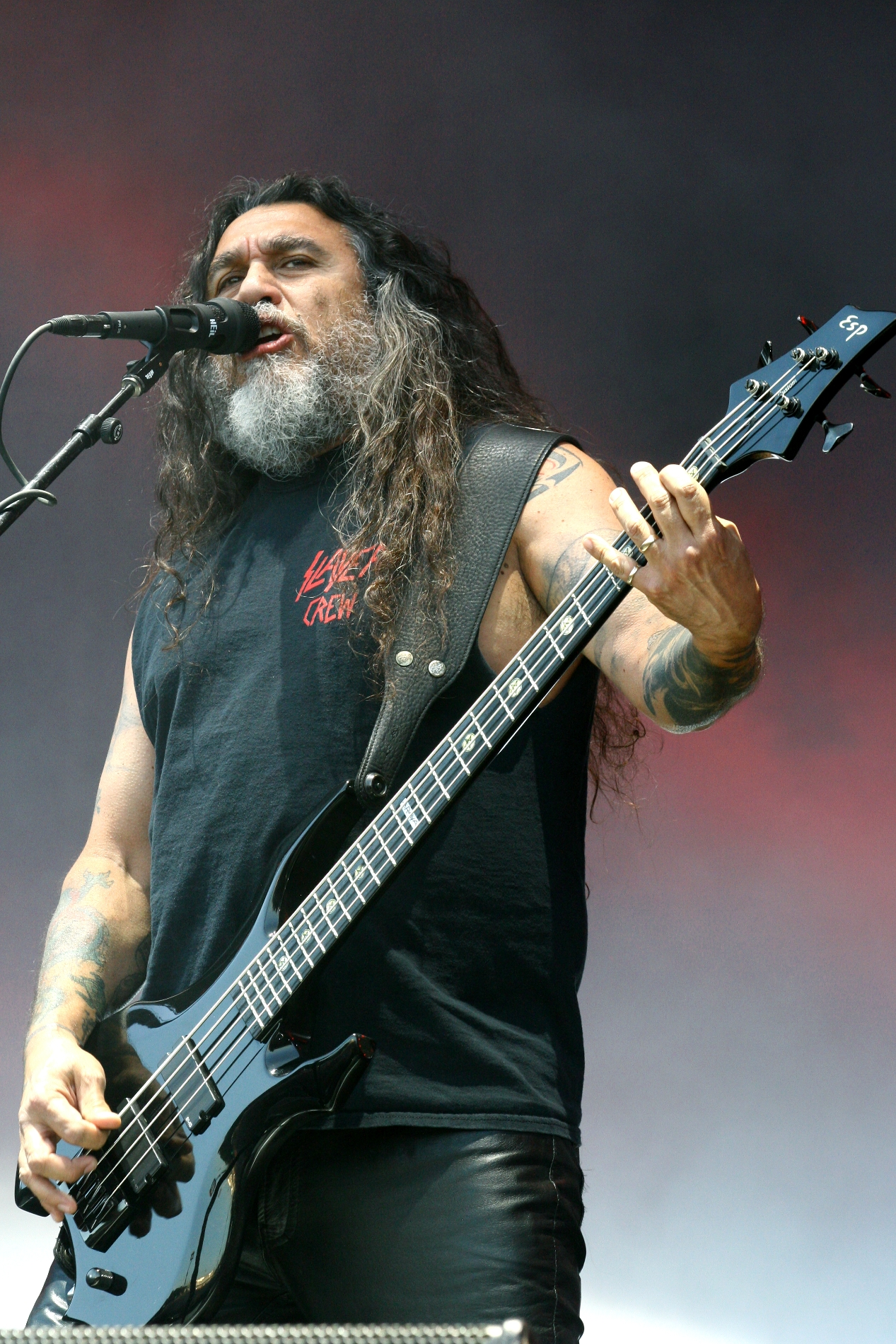 Tom Araya, singer of Slayer, Rock im Park Festival 2014. Festivalsommer This photo was created with the support of donations to Wikimedia Deutschland in the context of the CPB project "Festival Summer".